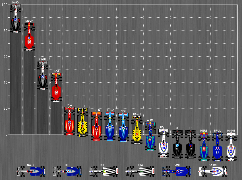 chart of final standings of 1998 Formula One season